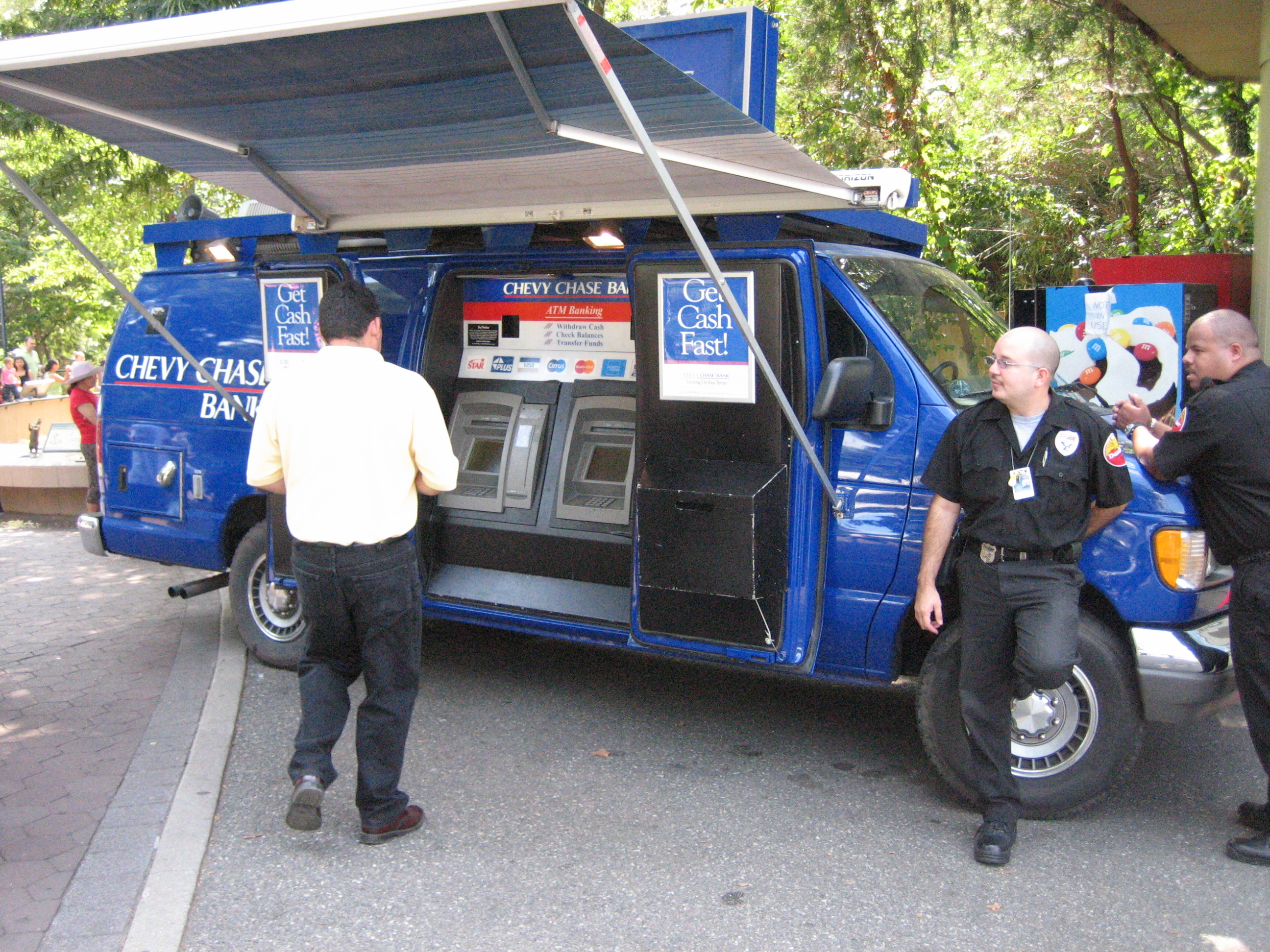 Mobile ATMs installed in a van with guards